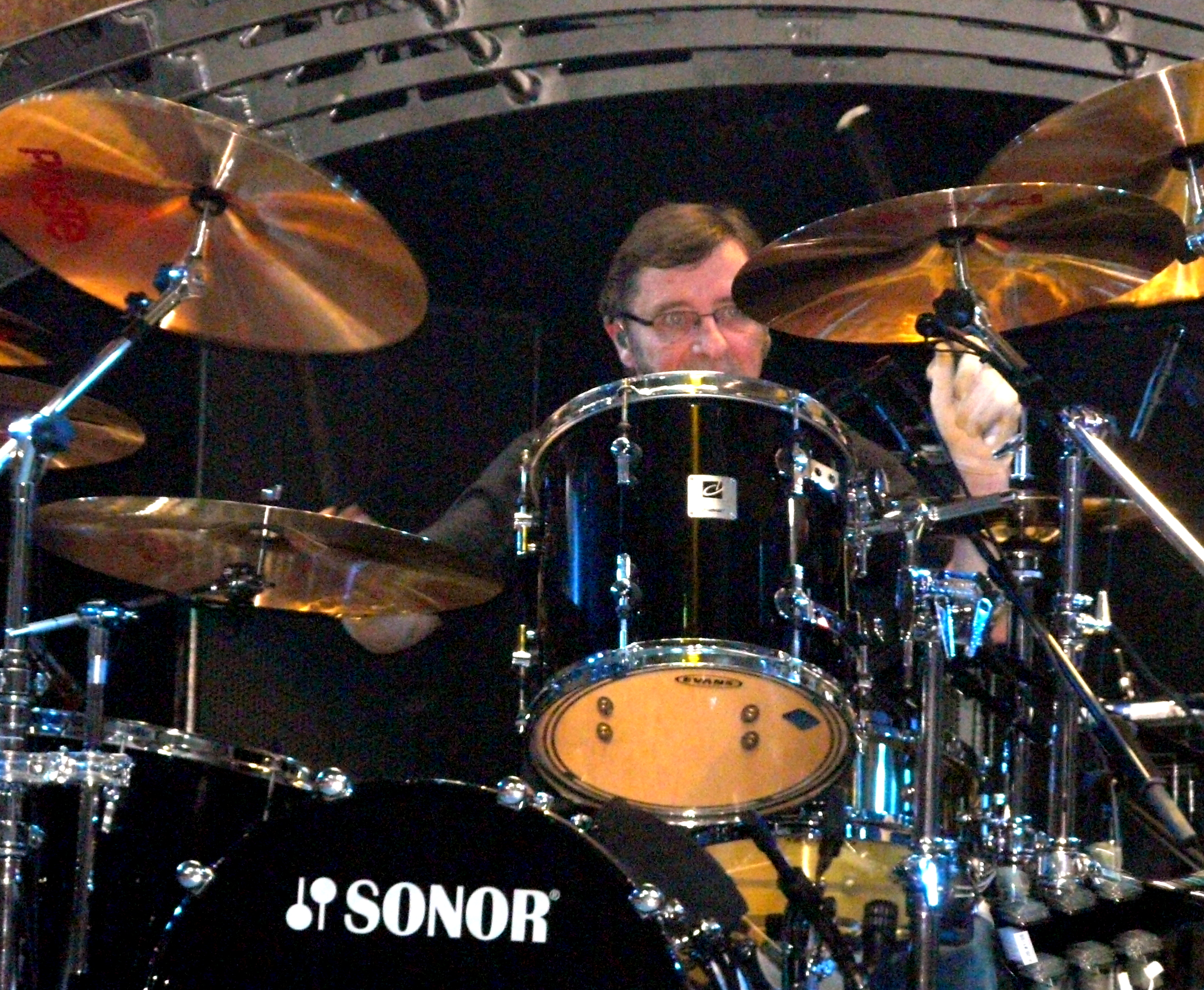 PHIL RUDD With AC/DC in St. Paul, MN on November 23, 2008 Photo by Matt Becker